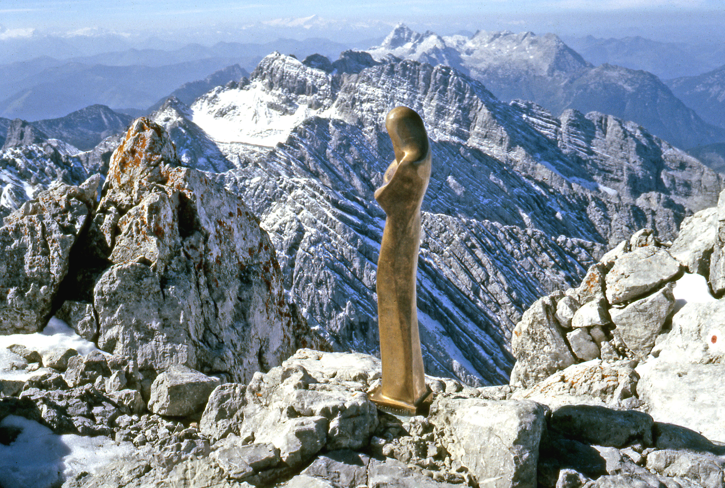 Madonna on Hochkalter summit, stolen 2002